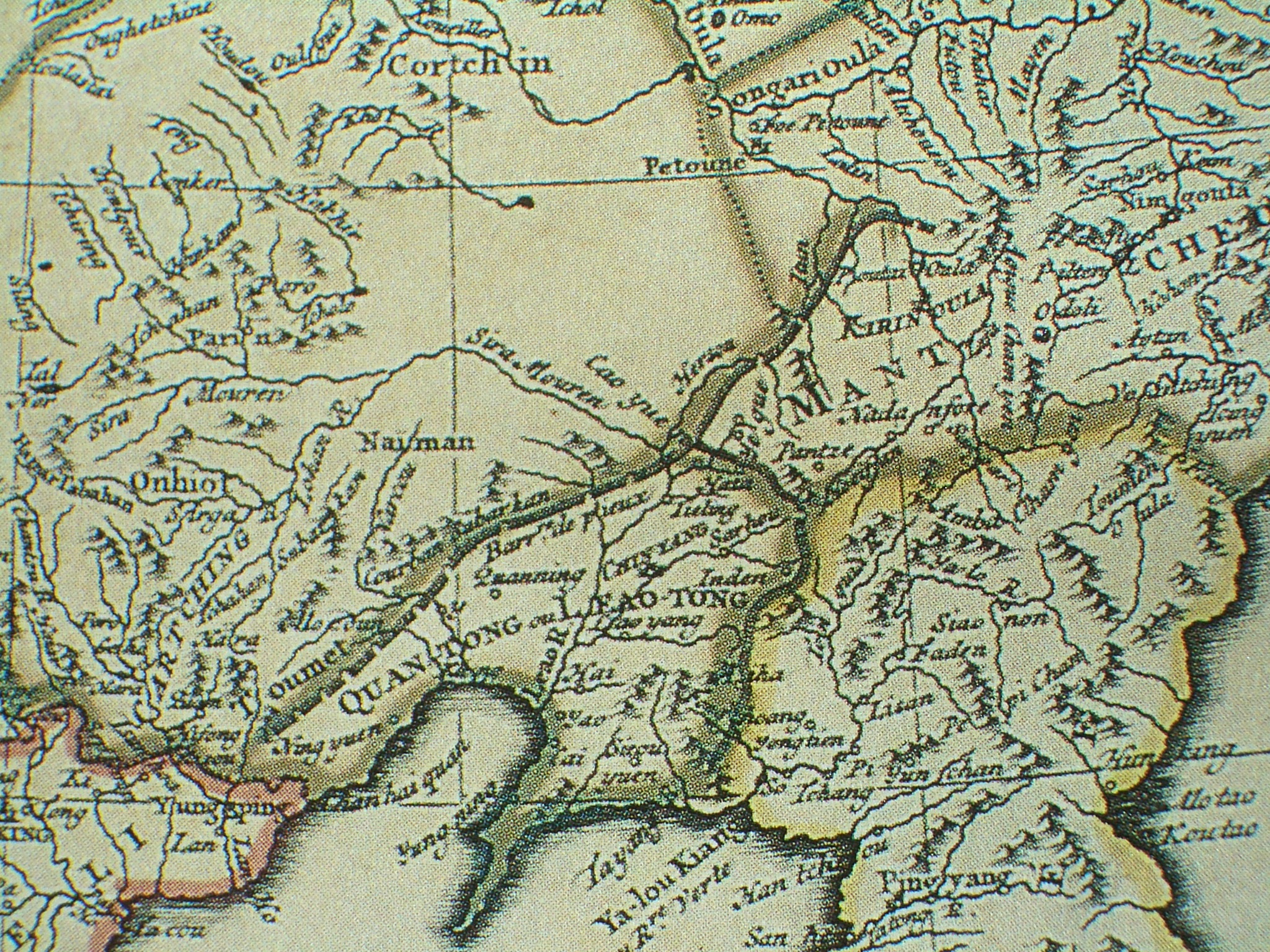 A most general map, including China, Chinese Tartary, and Tibet, based on individual maps of the Jesuit fathers. The map gives 1734 as the year, but the modern HKUST publishers say 1737